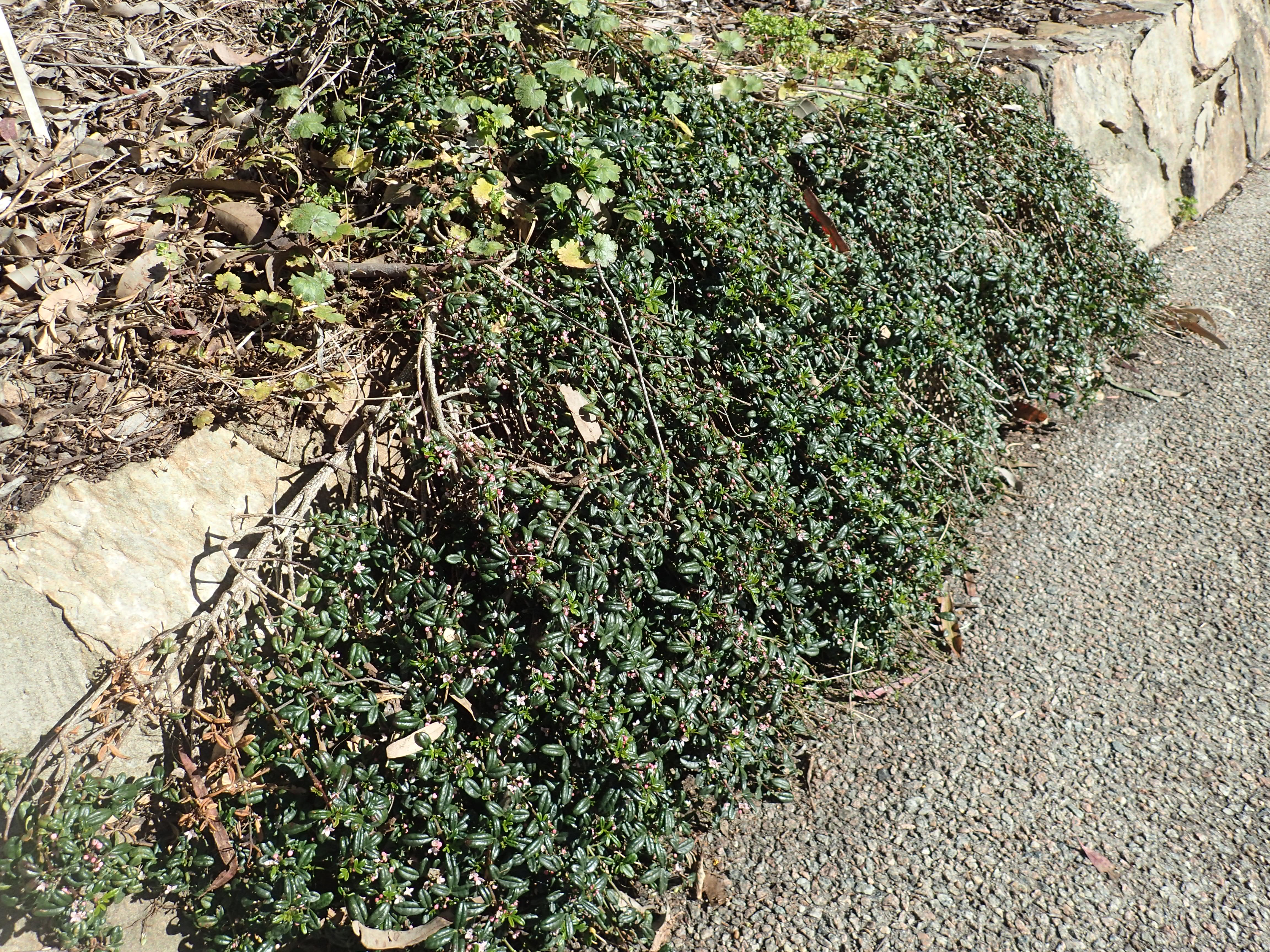 Zieria prostrata in the Australian National Botanic Gardens